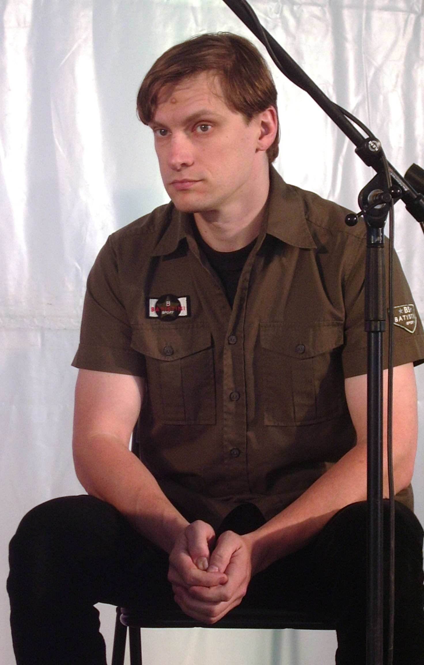 Maniakkide Tänav (born 1976) is Estonian science fiction writer. Performing during Tallinn Literature Festival.